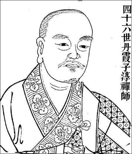 Image of Danxia Zichun, a Chinese Zen Monk during the Song Dynasty